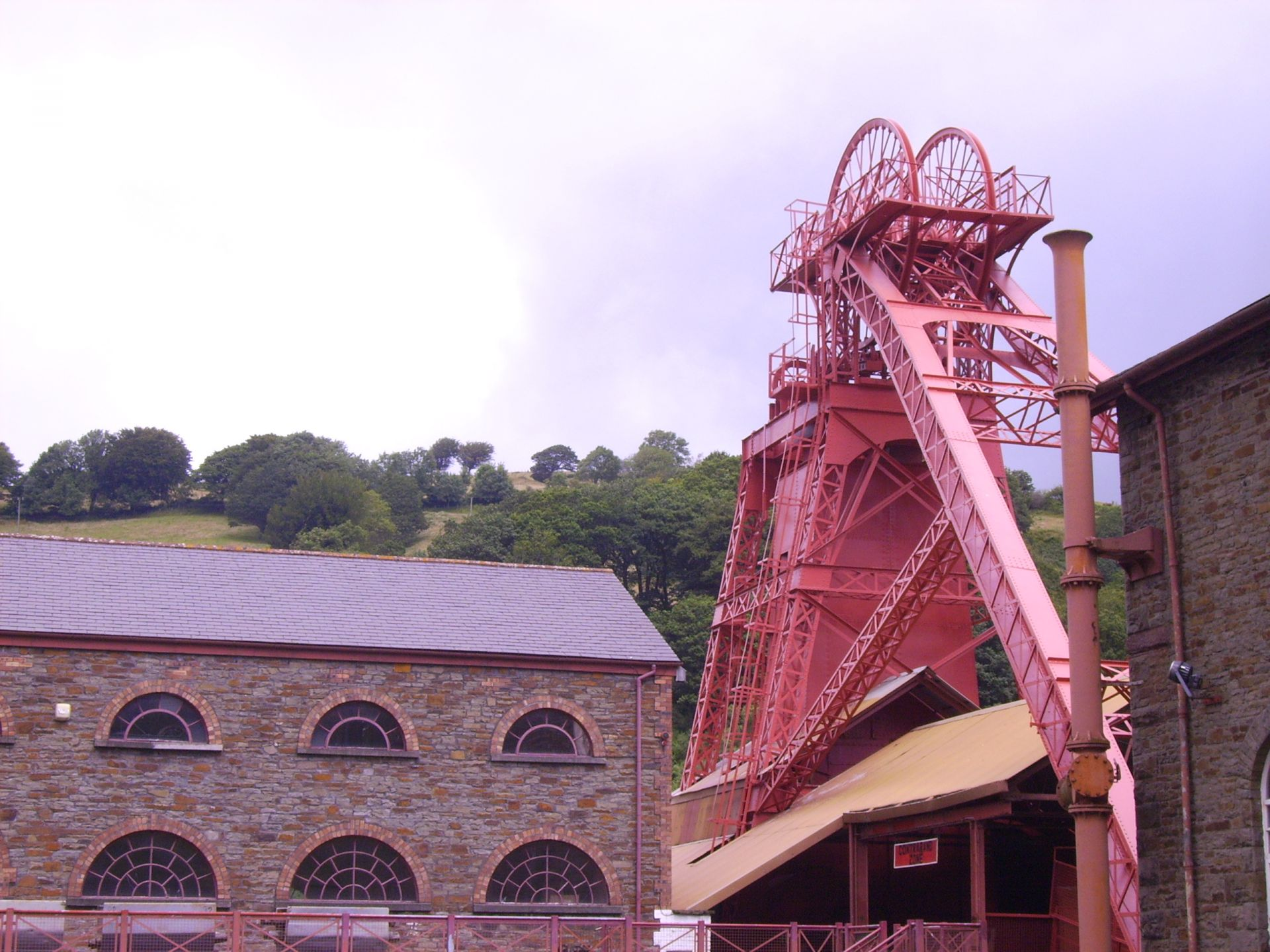 Lewis Merthyr Colliey, Trehafod, Rhondda, Wales. Rhondda Heritage Park